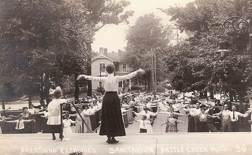 Postcard of Battle Creek Sanitarium exercise class, c. 1911, The Dillard Library collection